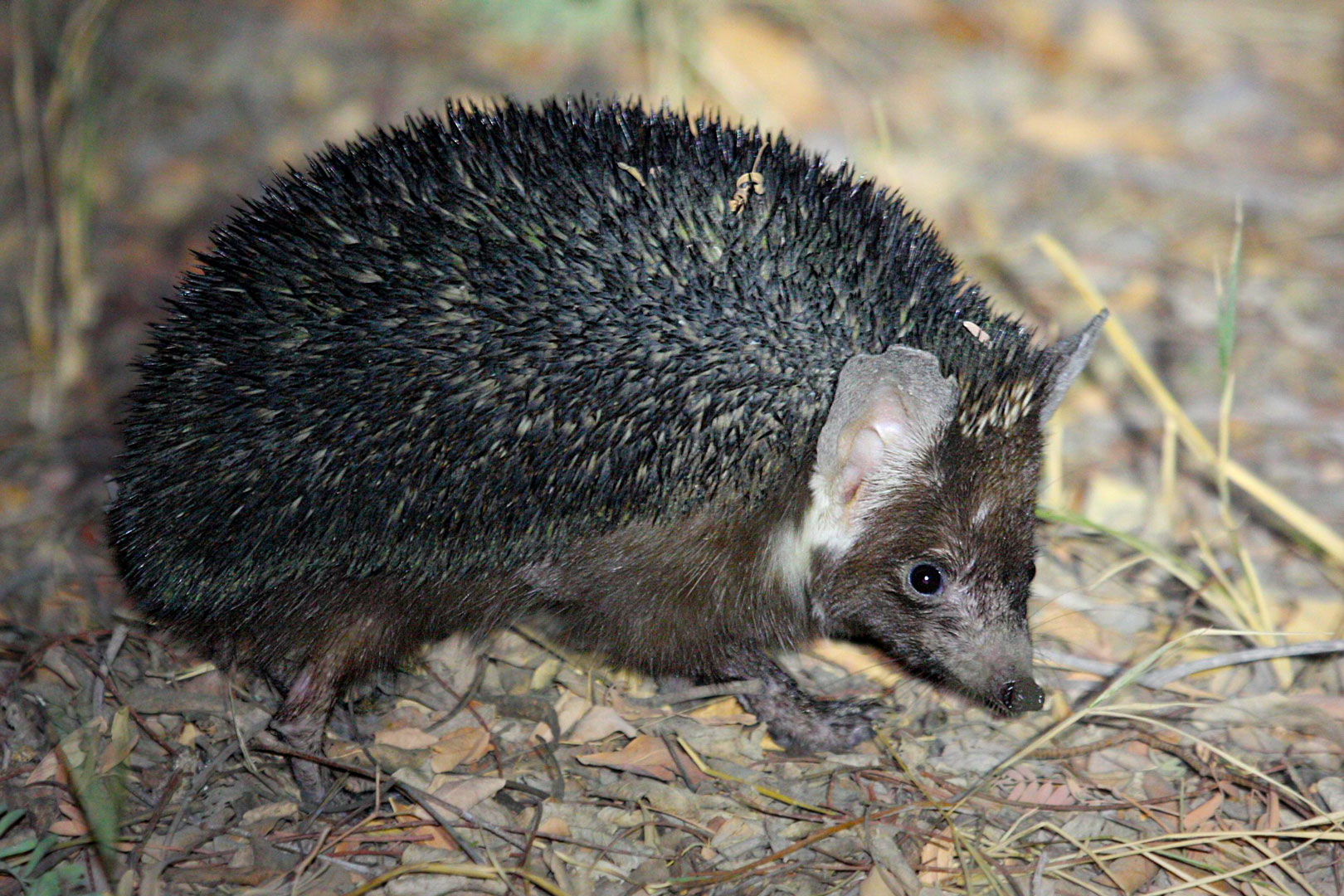 Photographed from Mushrif Park, Dubai, UAE